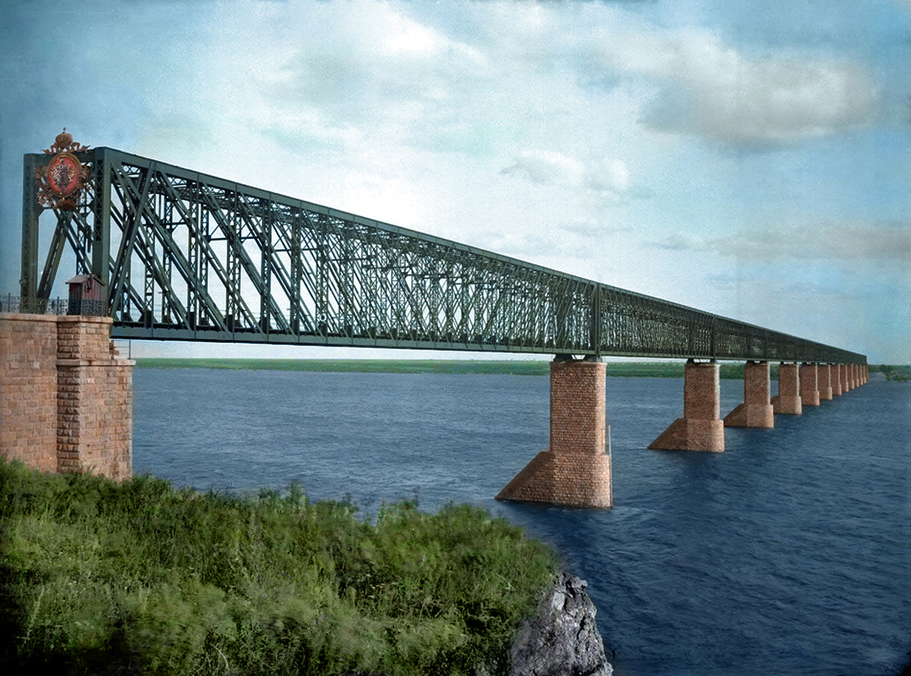 The famous Aleksandrovsky railway bridge through Volga constructed in 1890.